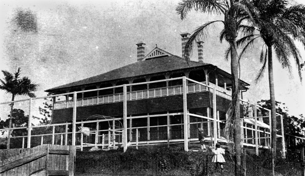 Mayfield, a residence in Brisbane, 1910. Mayfield, a large two storey residence with covered wrap-around verandahs.